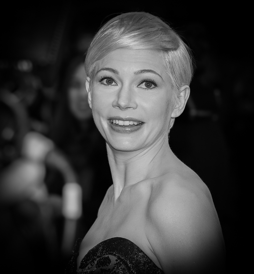 Michelle Williams at the Manchester by the Sea LFF 2016 Screening